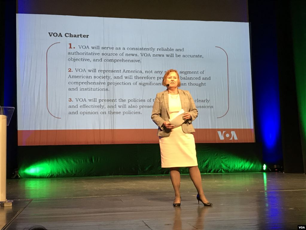 VOA Director Amanda Bennett gives a presentation on power of truth in a world of disinformation at the Media Literacy Conference in Sarajevo, September 22, 2017.